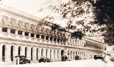 The Republic Building, Colombo which houses the Ministry of Foreign Affairs. It was once the meeting place of the Legislative Council of Ceylon. Category:History of Sri Lanka.